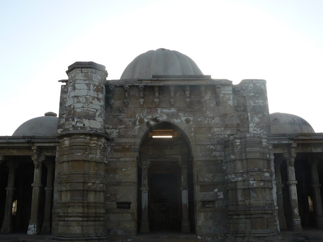 Lila Gumbaj